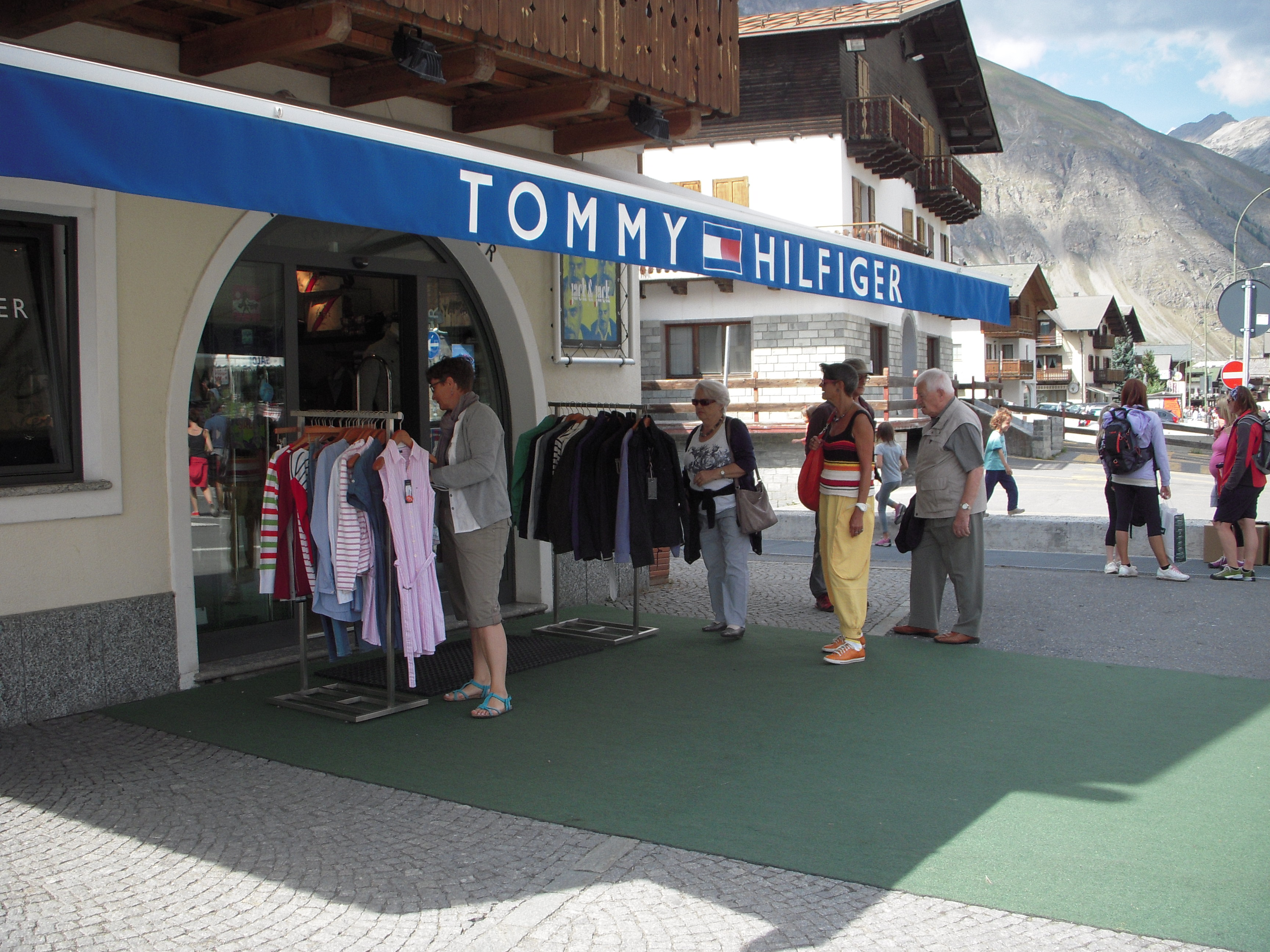 Tommy Hilfiger shop in Livigno, Italy. August 14, 2012.